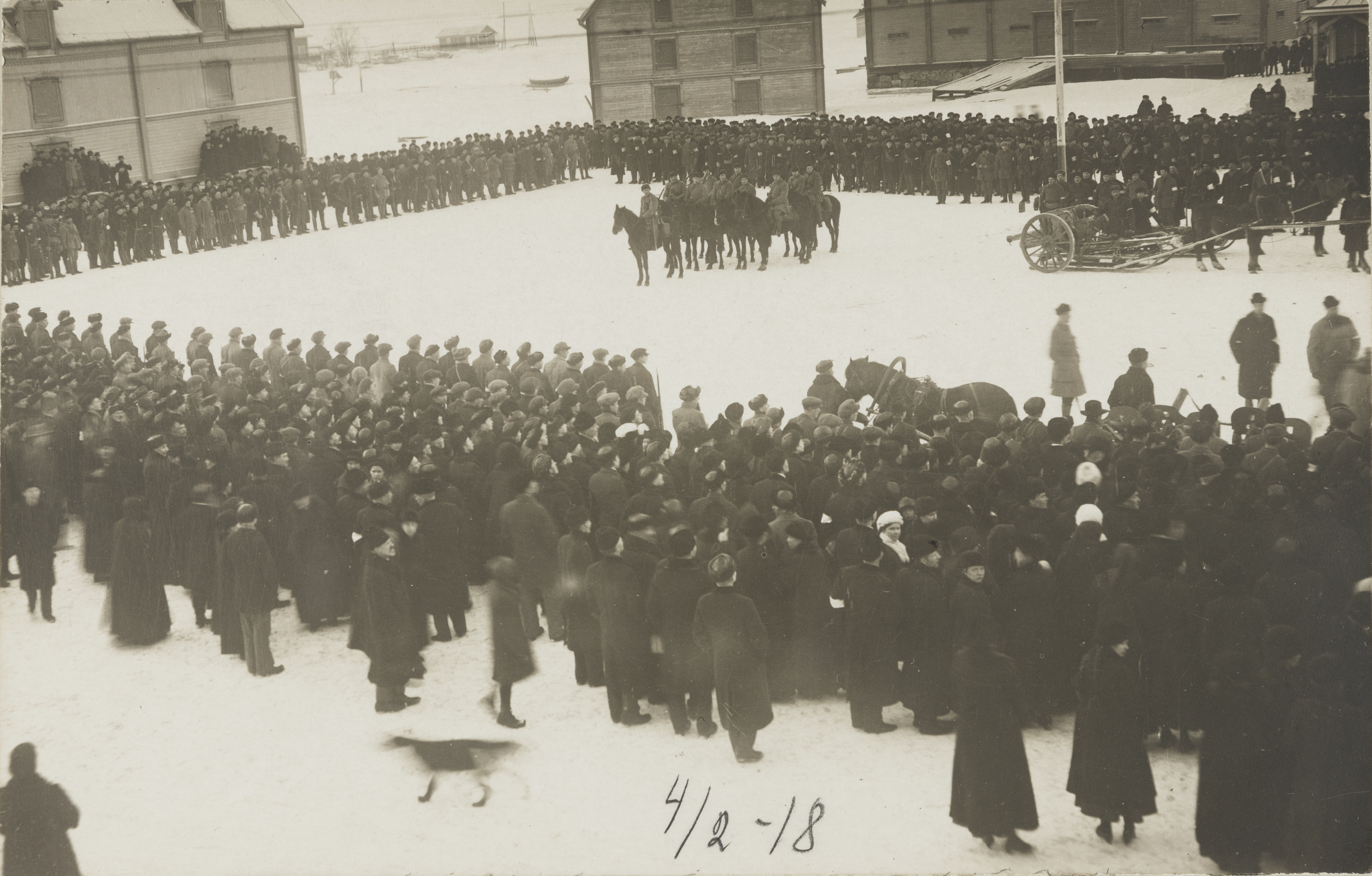 White Guard victory parade after the Battle of Oulu.